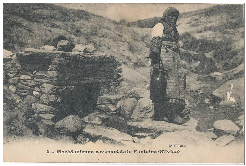 Woman in Slivitsa in the WWI